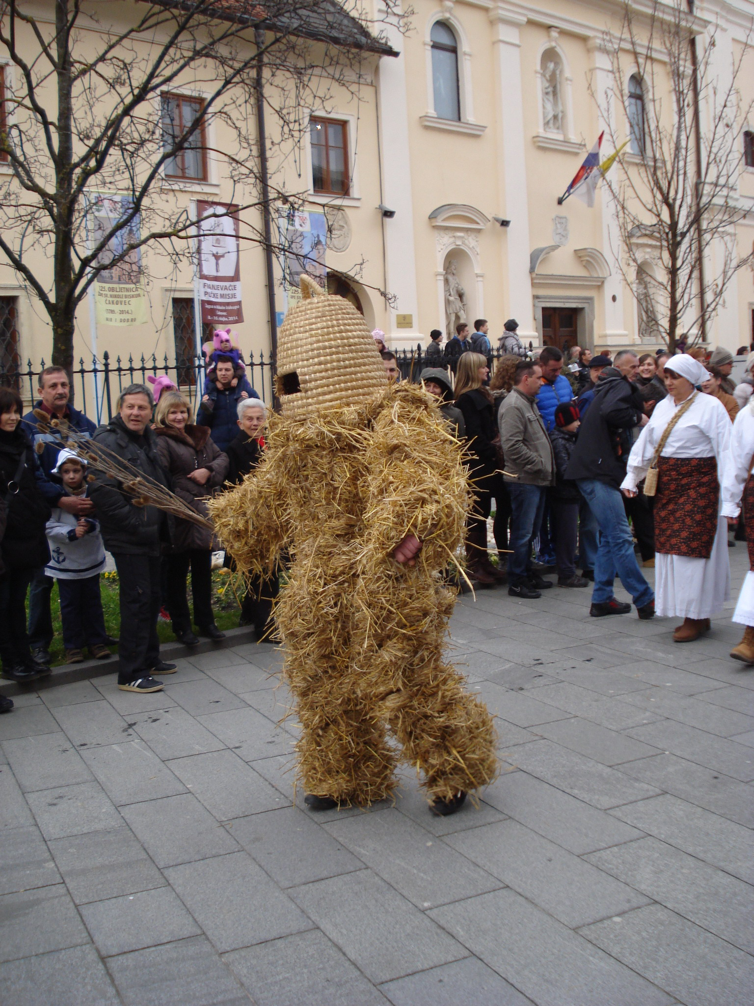 Medjimurje Carnival 2014 in Čakovec (Croatia) - Pikač (Pikach) mask from Selnica villageHrvatski: Međimurski fašnjak 2014. u Čakovcu (Hrvatska) - maska "pikač" iz Selnice